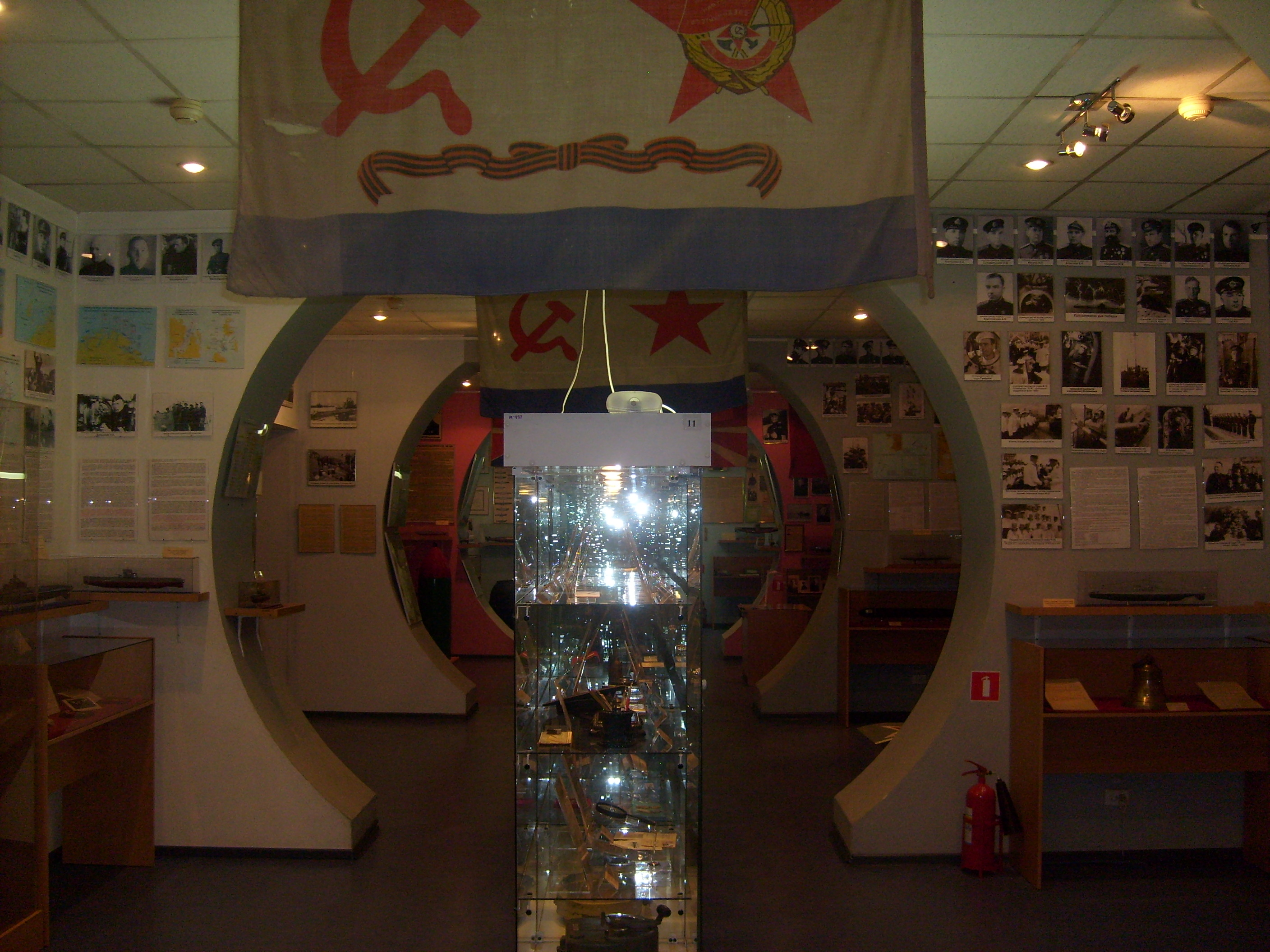 Общий вид первого зала музея.